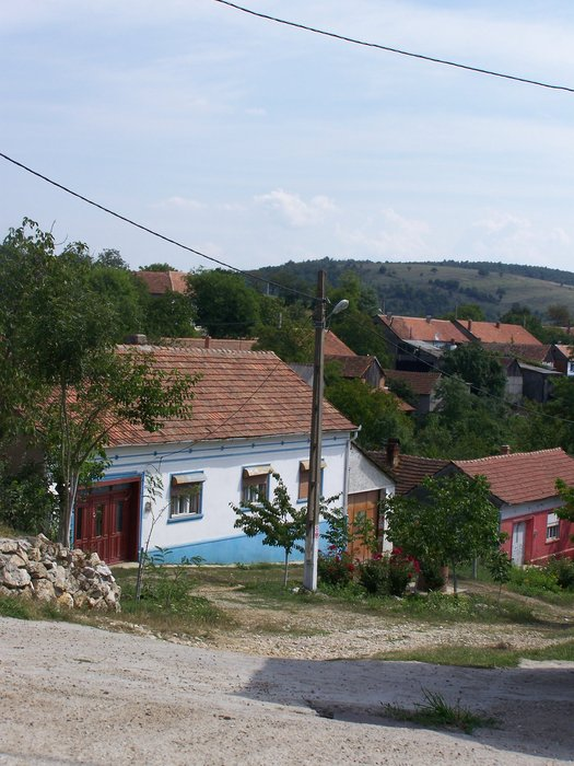 Romanian village Saint Helena